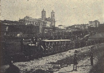 Inauguration train of the Trindade Rail Tunnel, on the Póvoa Railway, in Portugal. This ceremony took place on the 14th March 1932. This image was published on the Gazeta dos Caminhos de Ferro magazine No. 1062, of the 16th March 1932, and scanned by the Hemeroteca Municipal de Lisboa.